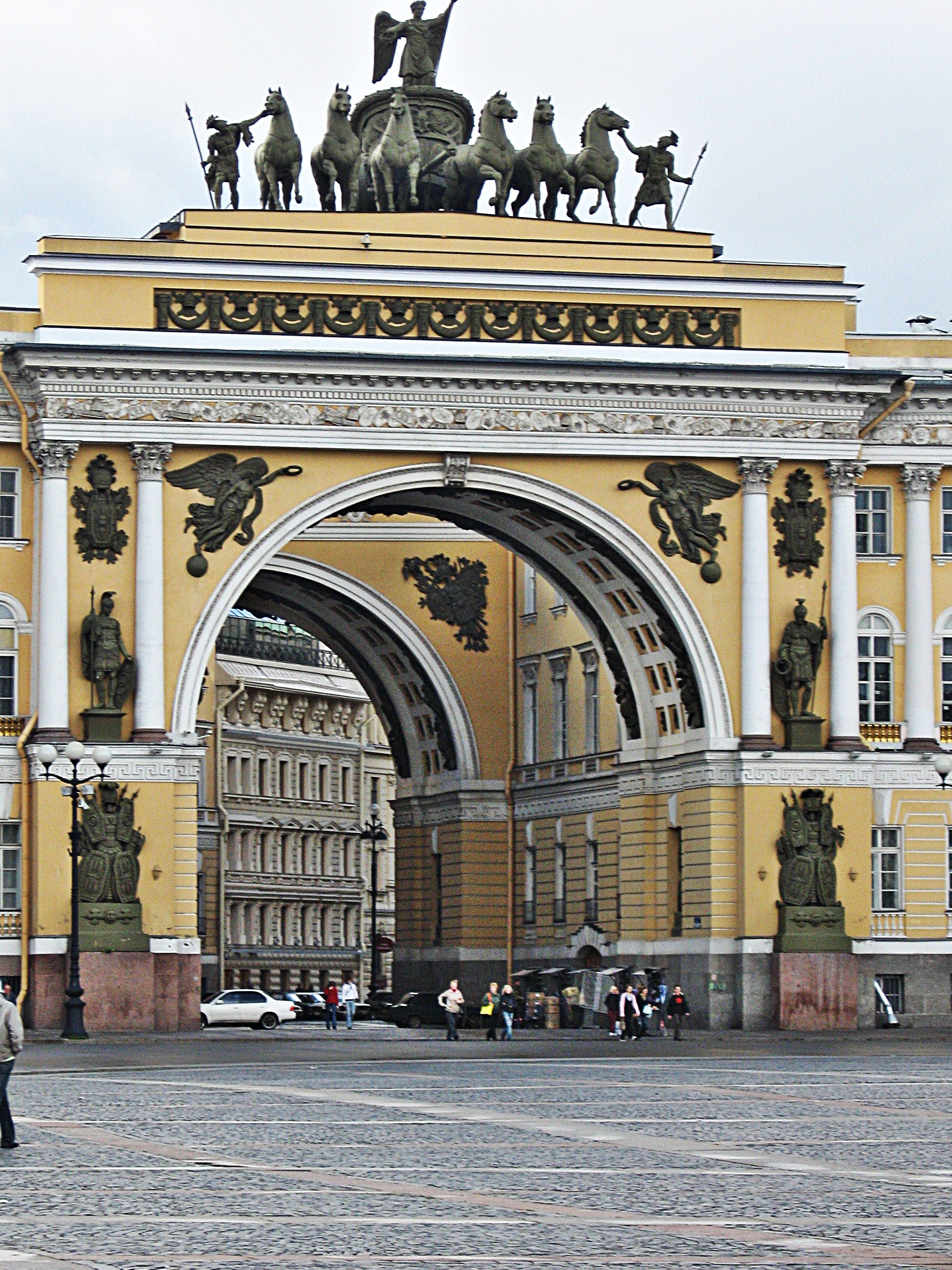 palace square